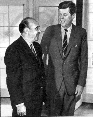 Anthony Joseph Celebrezze (1910-1998)